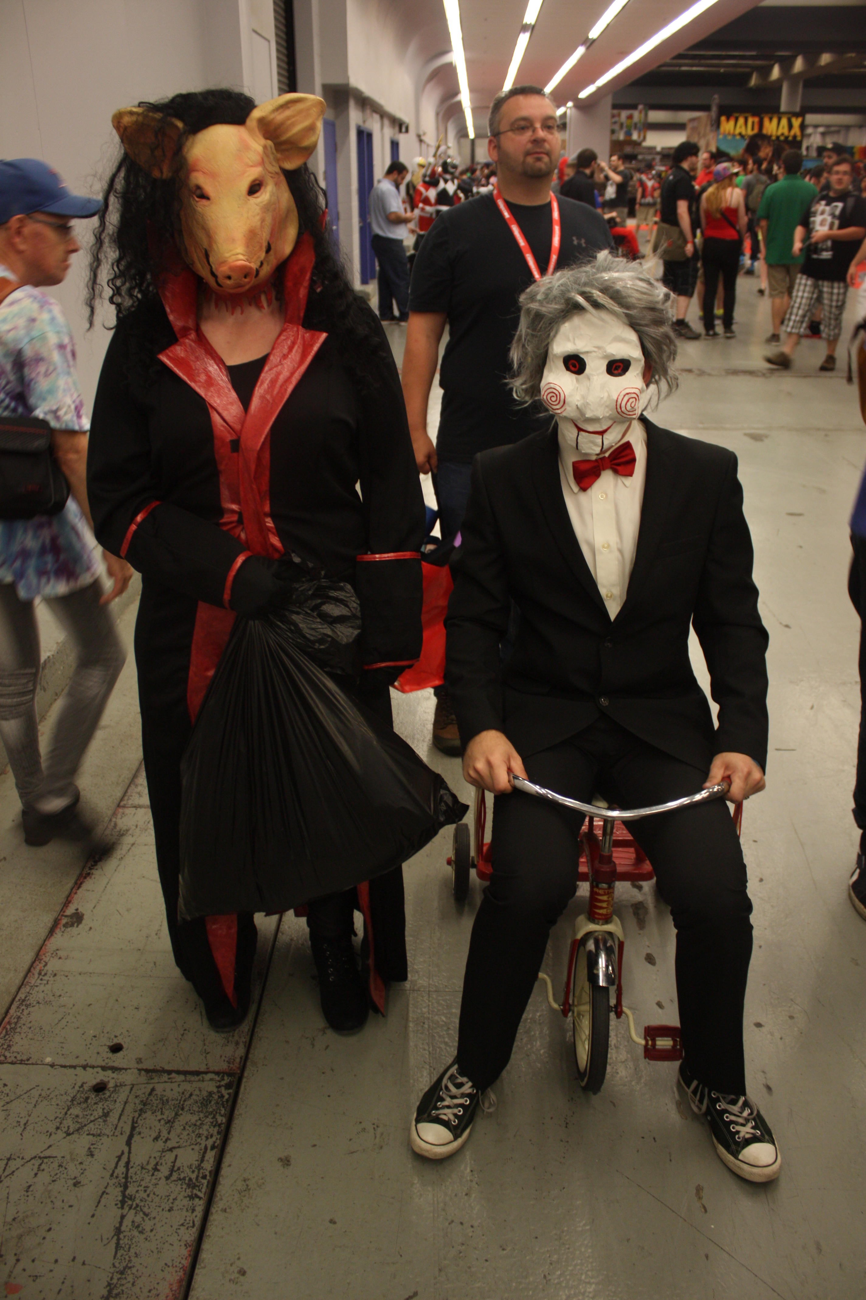 Cosplay one day two of Montreal Comiccon 2015.